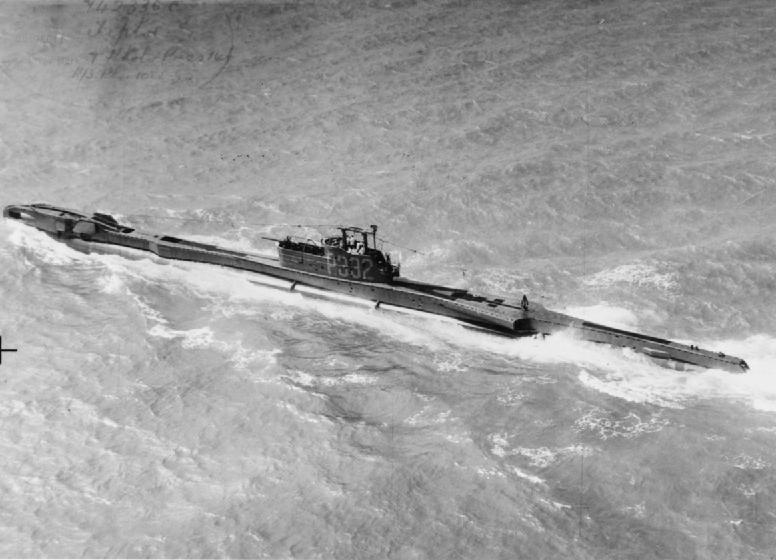 British T class submarine HMSM TIPTOE underway.